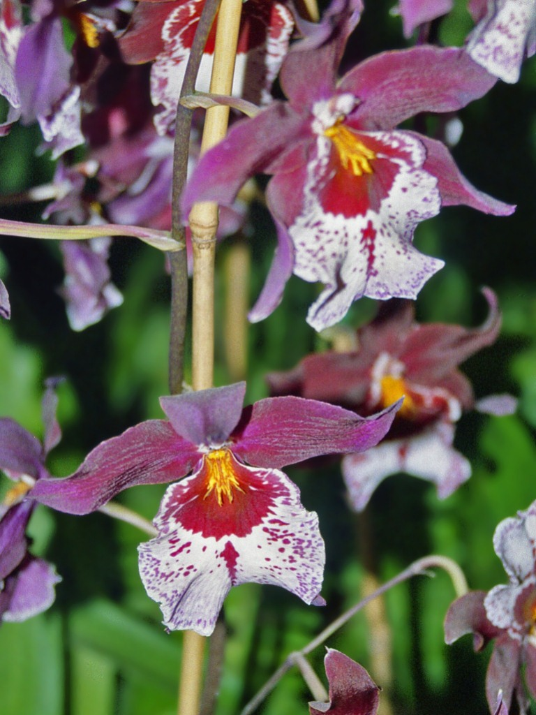 Cambria Orchid - Vuylstekeara Cambria Plush